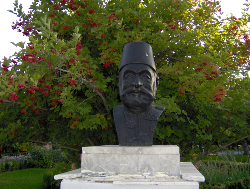 Bust of Halil Rifat Pasha in Sivas.